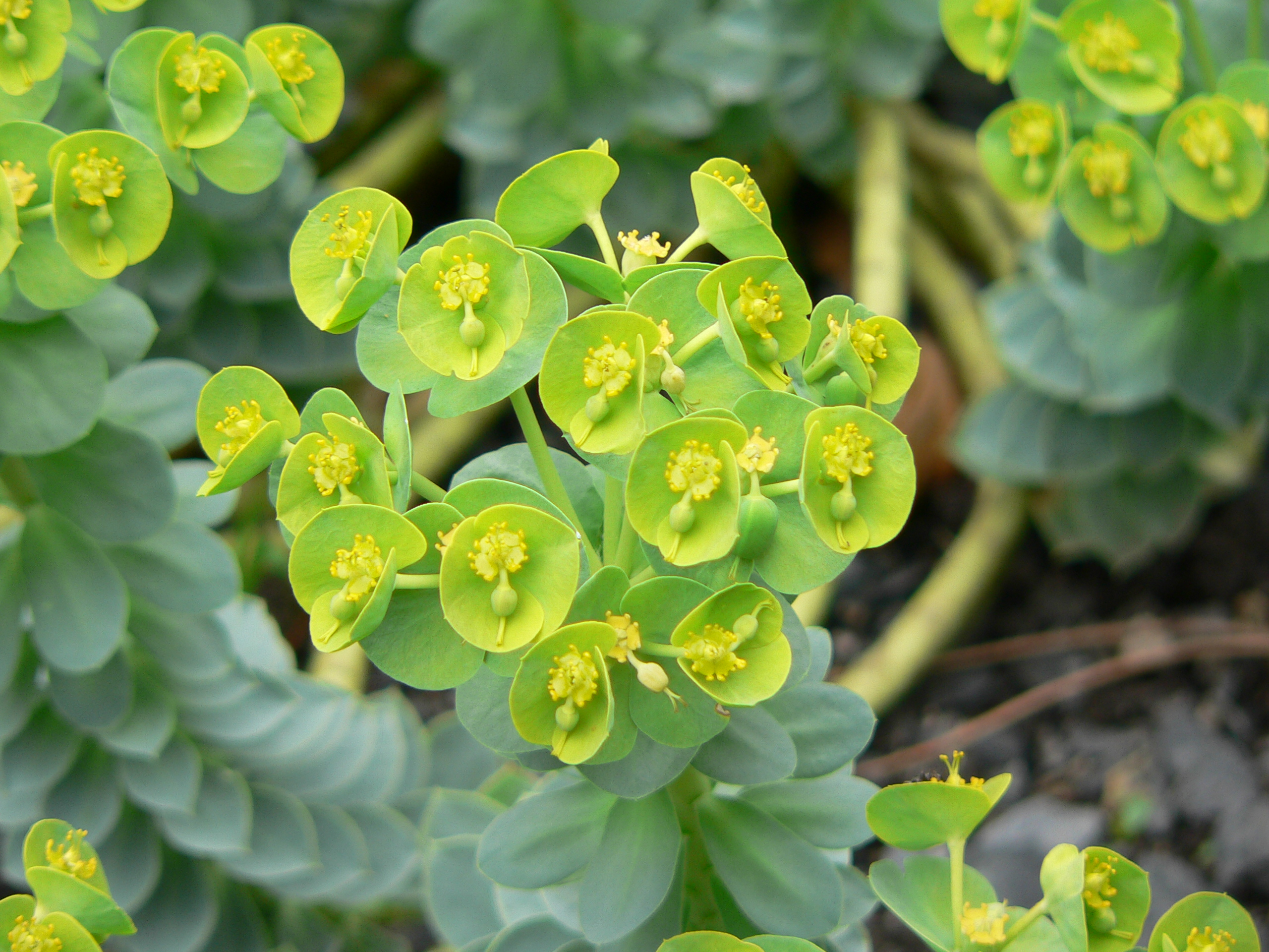 Euphorbia myrsinites